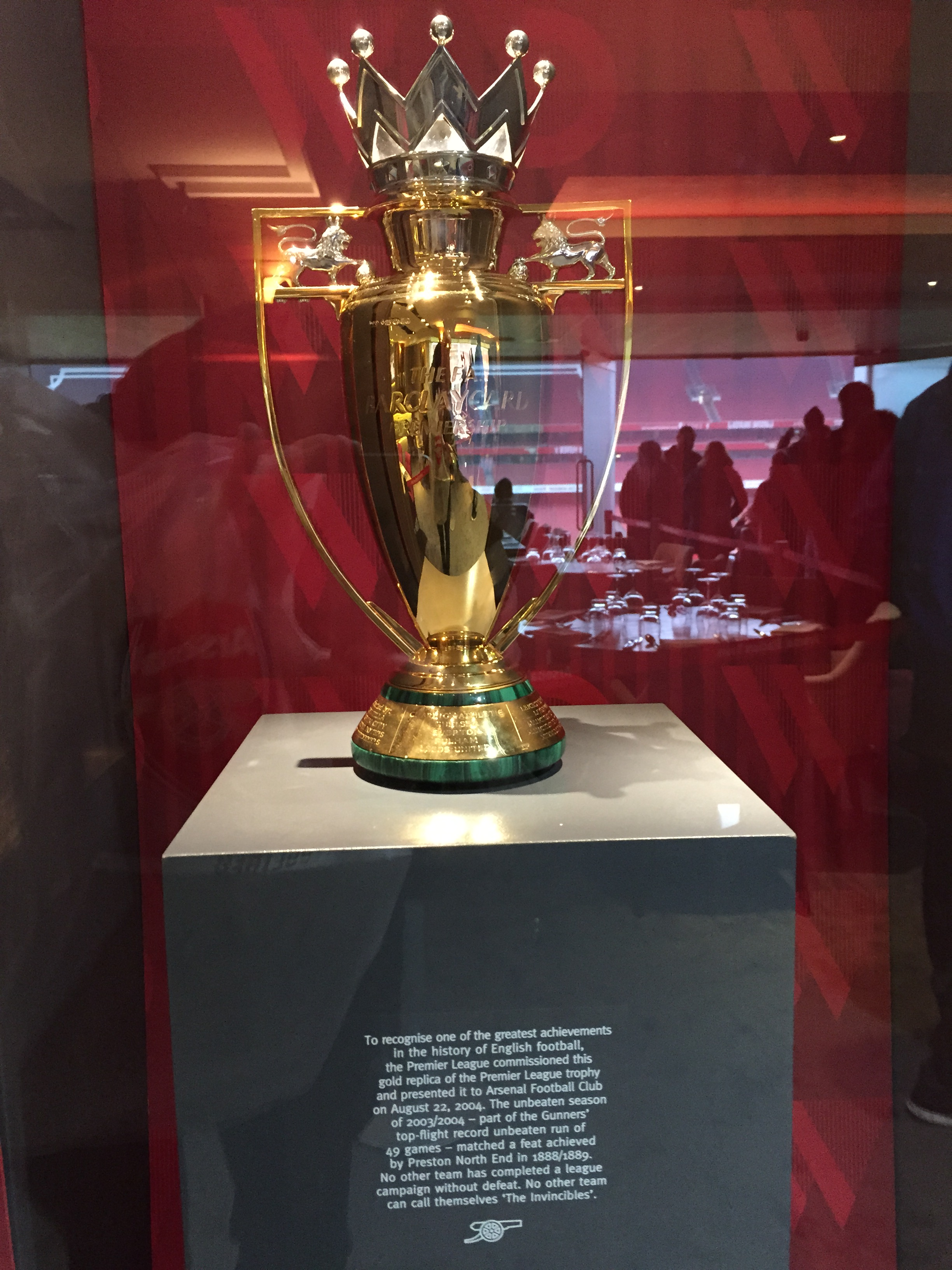 The Premier League commissioned a special gold trophy to commemorate Arsenal F.C. completing a whole league season without losing a match. It is on display in the Emirates Stadium.